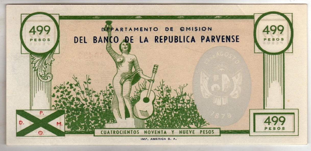 Banknote